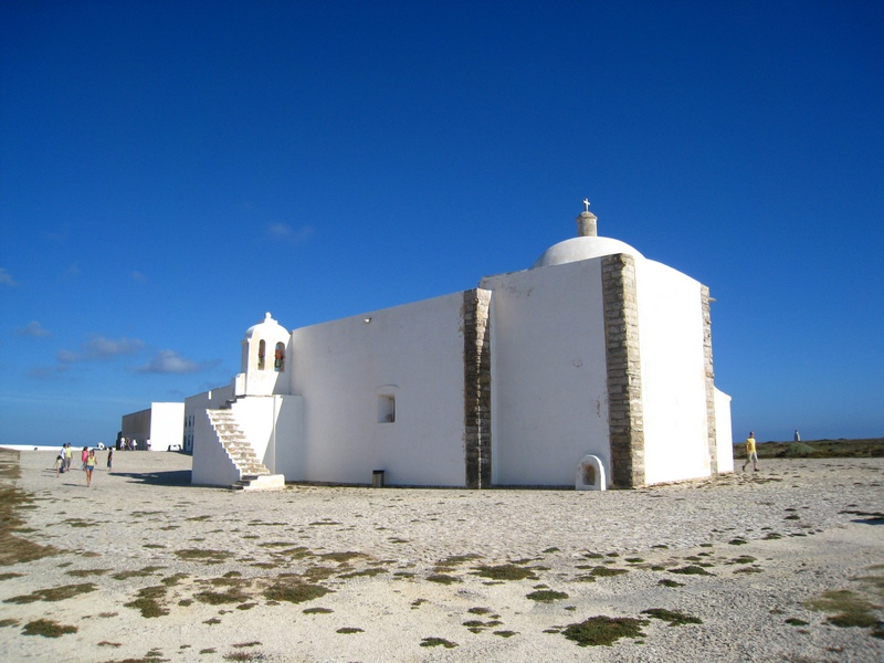 Church Nossa Senhora da Graca in Fortalezza Sagres, Portugal